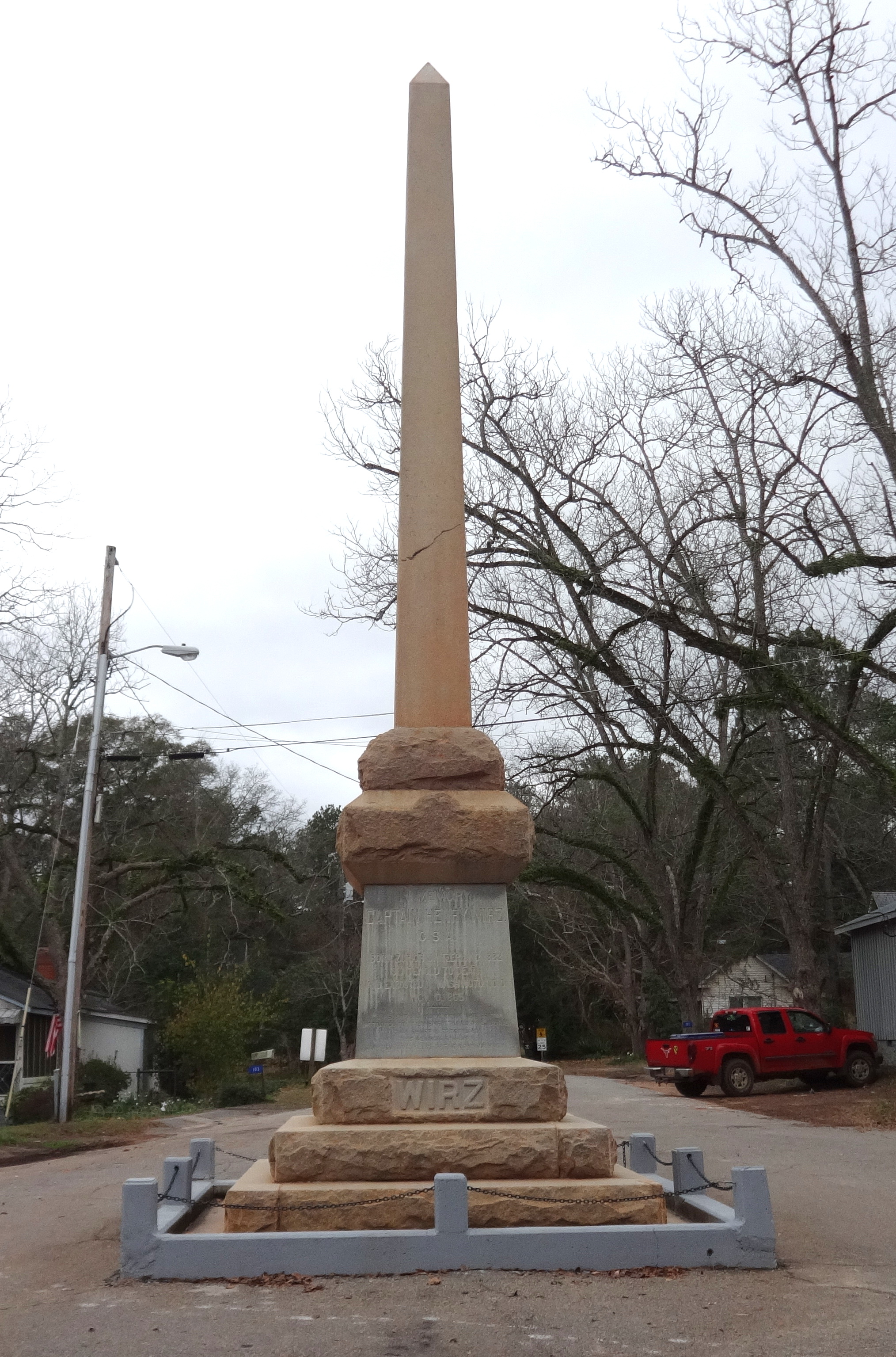 Captain Henry Wirz obelisk, Andersonville, Sumter County, Georgia. The text panels along the four sides of the monument read as follows: North Side When time shall have softened passion and prejudice, when reason shall have stripped the mask from misrepresentations, then justice, holding evenly her scales, will require much of past censures and praise to change places. Jefferson Davis, Dec. 1888 South Side Discharging his duty with such humanity as the harsh circumstances of the times, and the policy of the foe permitted Capt. Wirz became at last the victim of a misdirected popular clamor. He was arrested in the time of peace, while under the protection of parole, tried by a military commission of a service to which he did not belong, and condemned to ignominious death on charges of excessive cruelty to Federal prisoners. He indignantly spurned a pardon proffered on condition that he would incriminate President Davis and thus exonerate himself from charges of which both were innocent. East Side In memory of Captain Henry Wirz, C.S.A. born Zurich, Switzerland, 1822, sentenced to death and executed at Washington D.C. November 10, 1865. To rescue his name from the stigma attached to it by embittered prejudice this shaft is erected by the Georgia division, United Daughters of the Confederacy. West Side It is hard on our men held in southern prisons not to exchange them, but it is humanity to those left in the ranks to fight our battles. At this particular time to release all rebel prisoners would insure Sherman’s defeat and would compromise our safety here. Ulysses S. Grant, Aug. 18, 1864. (NPS)